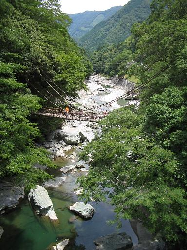 original photo by CES